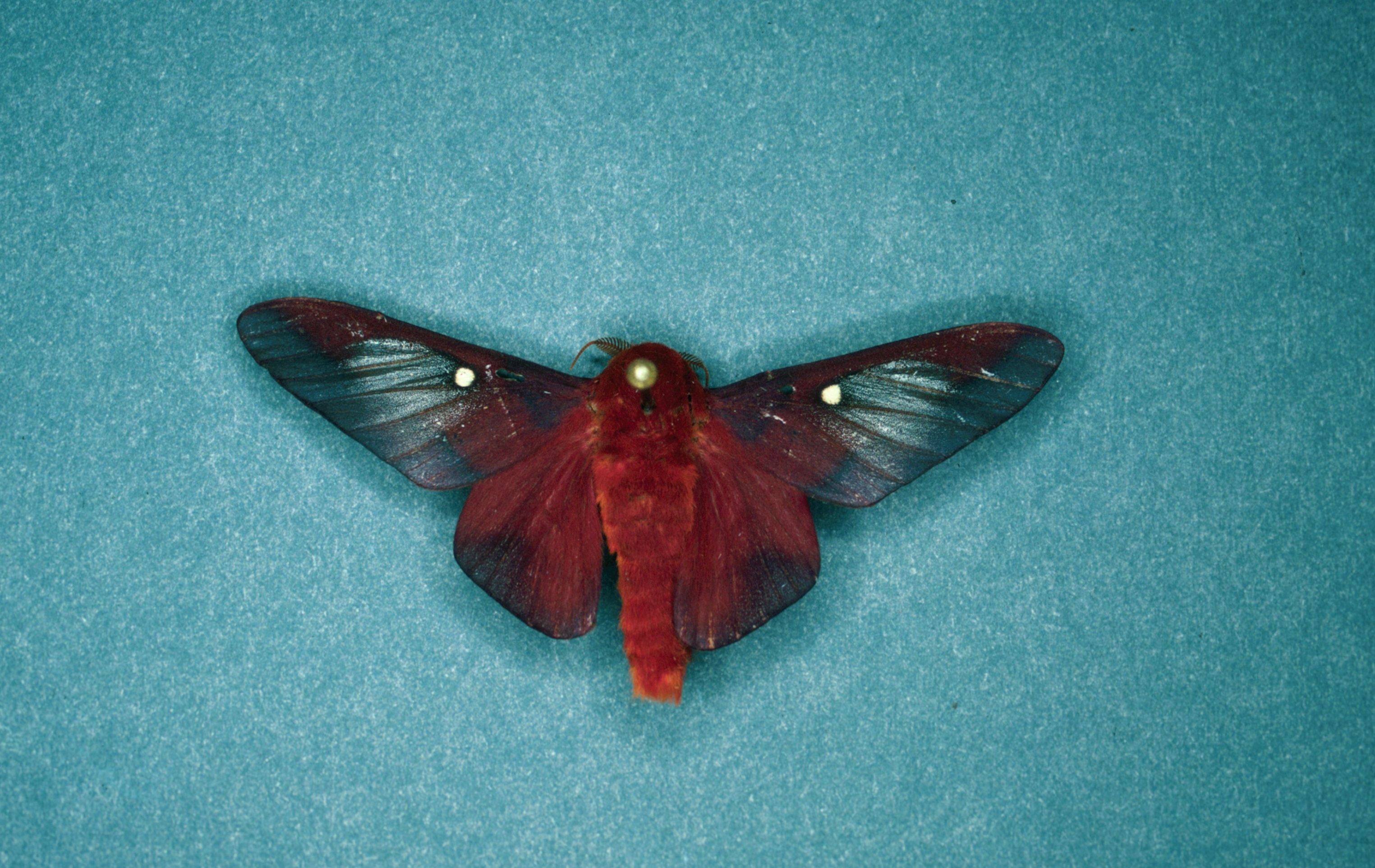 Anisota virginiensis